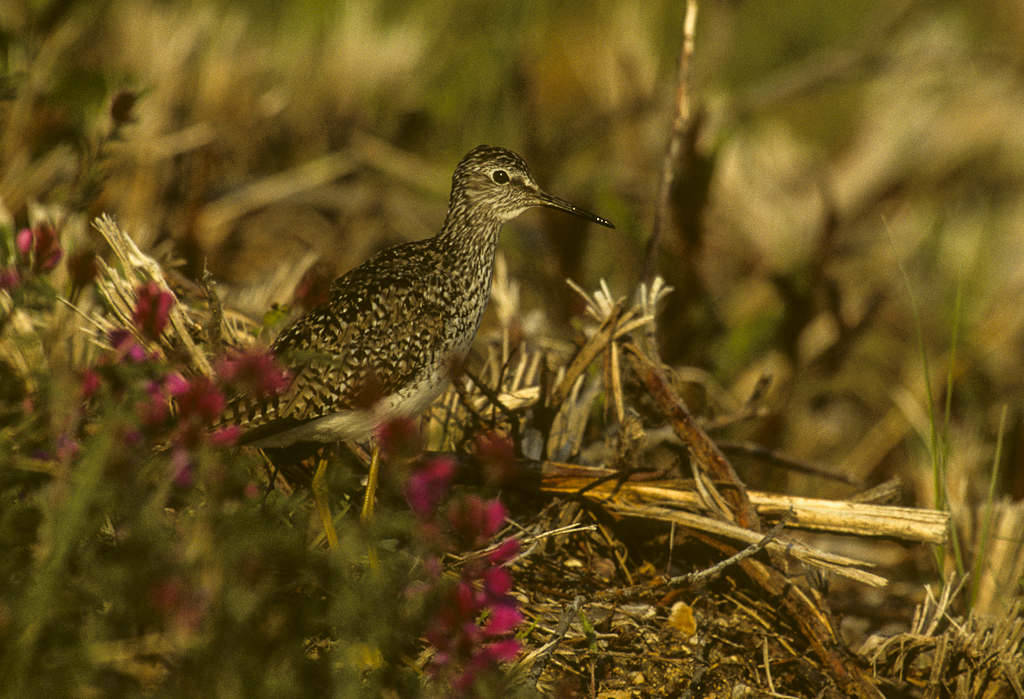 Lesser Yellowlegs - Churchill - Canadà_010039